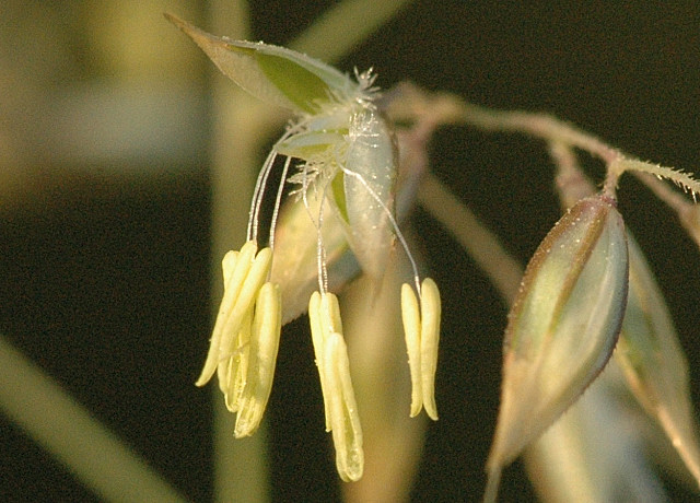 Picture taken in Commanster, Belgian High Ardennes . Species: Holcus mollis